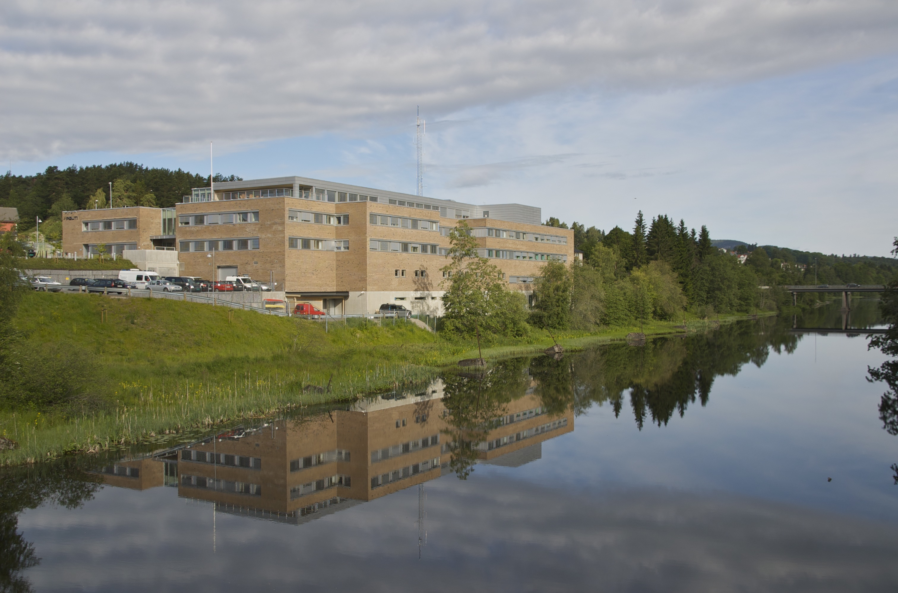 Police house in Skien, Norway.